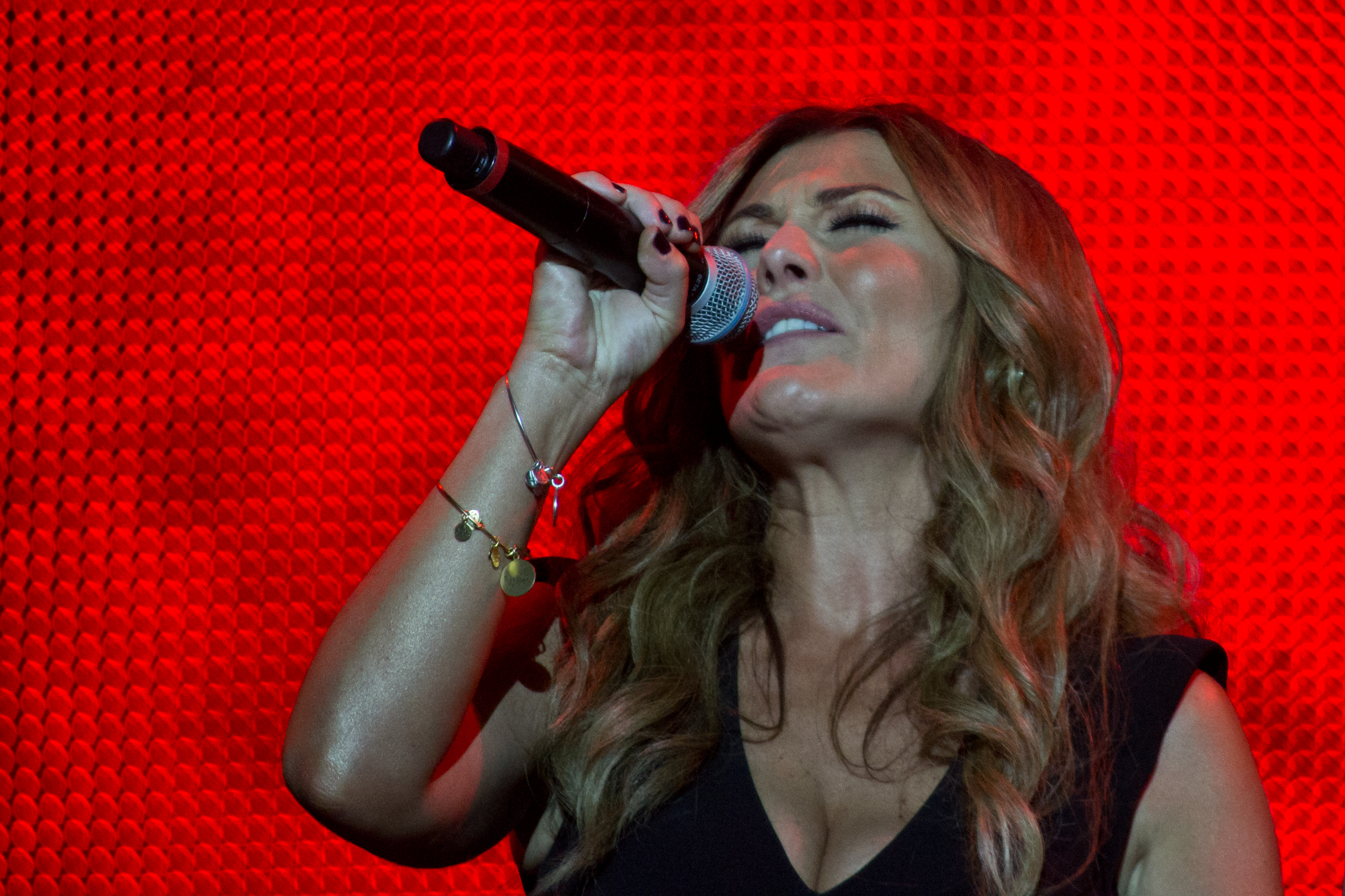 Amaia Montero in Rock in Rio Madrid 2012.